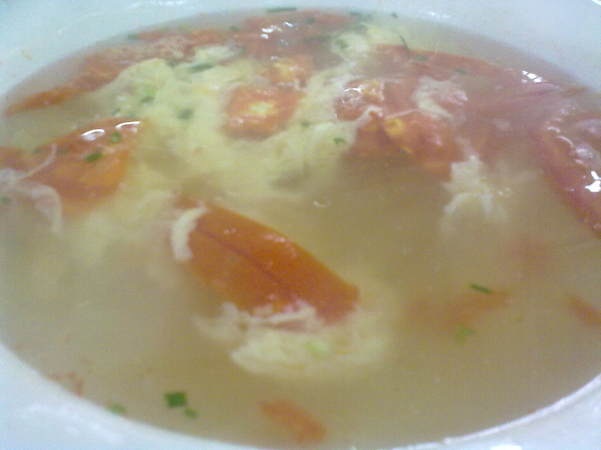 The tomato and egg soup is quite delicious.